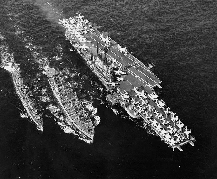 The U.S. aircraft carrier USS Coral Sea (CVA-43) steams alongside USS Bellatrix (AF-62) during underway replenishment in Western Pacific waters. USS Duncan (DDR-874) is at left. Plenty of aircraft of Attack Carrier Air Wing 15 (CVW-15) are parked on the flight deck. Visible are F8U-2N Crusaders of VF-154, F3H-2 Demons of VF-151, A4D-2 Skyhawks of VA-155, A4D-2N Skyhawks of VA-153, AD-6 Skyraiders of VA-152, WF-2 Tracers of VAW-11 Det. D, A3D-2 Skywarriors of VAH-2, and a single HUP-3 helicopter of HU-1 Det. D. Coral Sea, with assigned Carrier Air Group 15 (CVG-15), was deployed to the Western Pacific from 12 December 1961 to 17 July 1962. Note: The photo was taken off the coast of Thailand, with QM3 Brannon on the helm of Bellatrix.